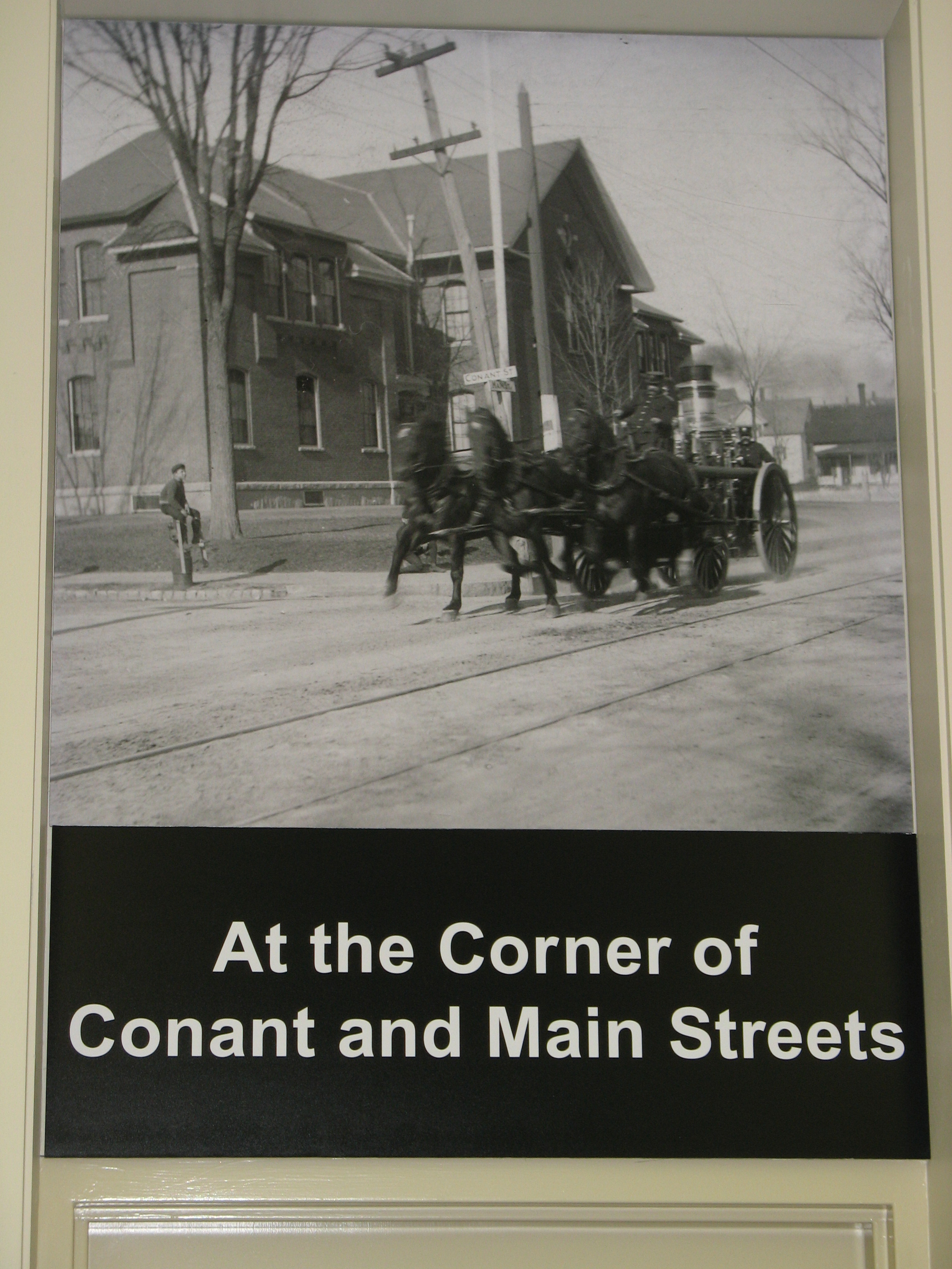 King Fire Station - Corner of Conant and Main St. (now the Manchester City Library West Branch)